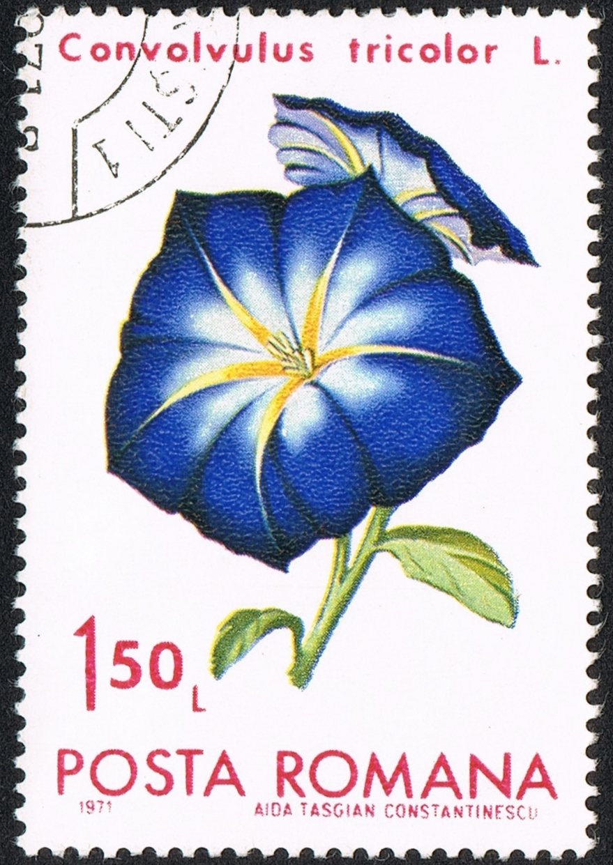 Romanian stamps from 1971 with flowers and scientific name Convolvulus tricolor - 1,50 Lei